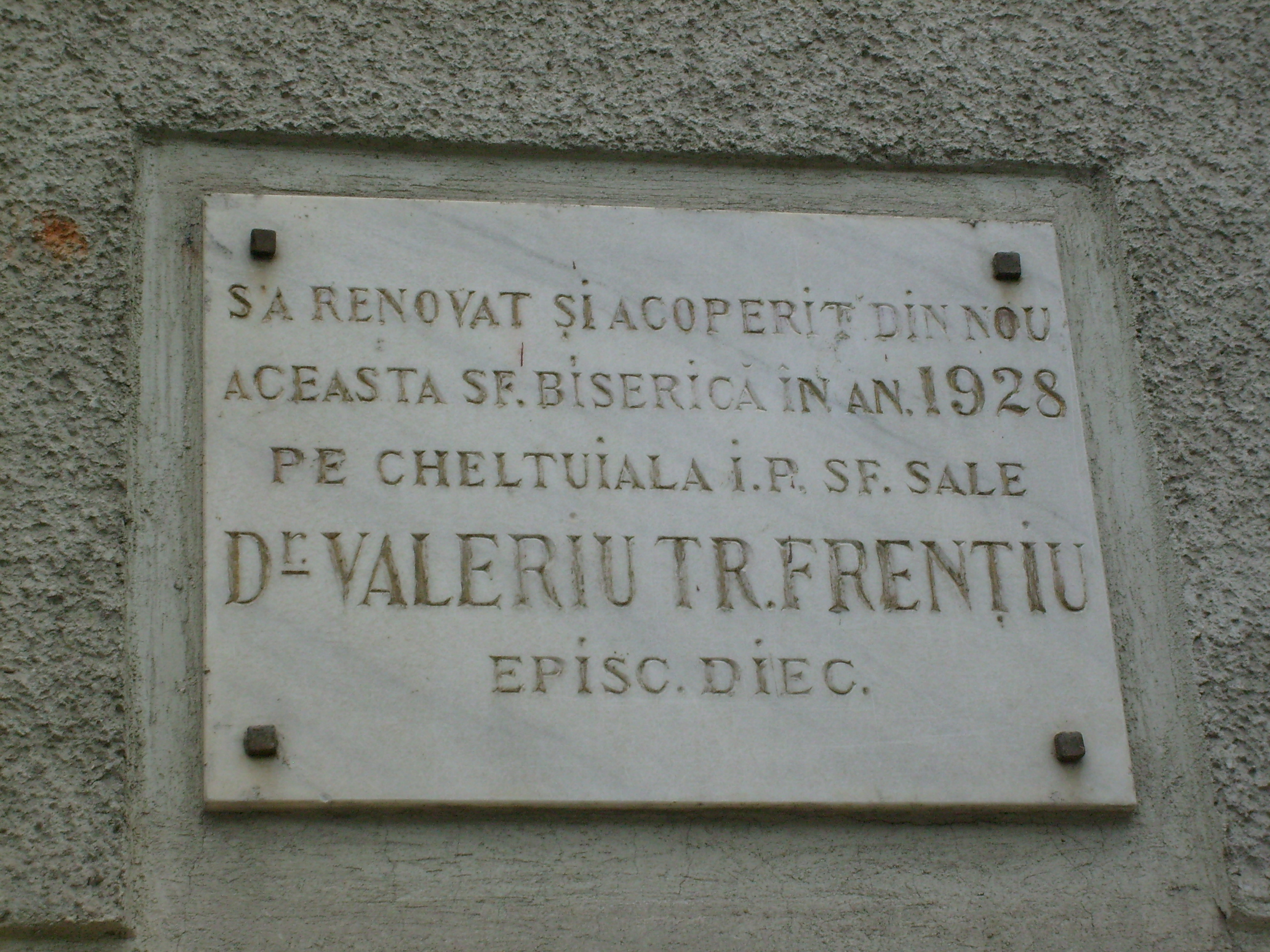 Inscription in memory of Bishop Frentiu on the Greek Catholic church in Beius, Bihor County, Romania.